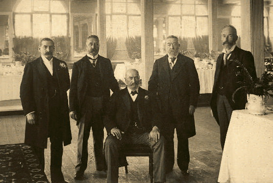 JR Laing, W Trotter, JM Bruce, GW Bruce and EP Truman of Paterson, Laing and Bruce Limited. 1900